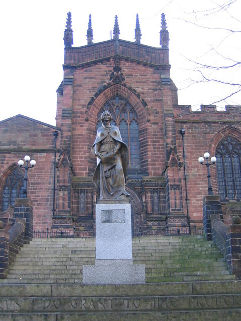 Statue of Lady Wulfruna Lady Wulfruna, or Wulfrun to use the correct Anglo-Saxon pronunciation of her name is said to provide the origin of Wolverhampton's name. She is believed to have been the grand-daughter of King Ethelred I and Queen Aethelflaed (daughter of King Alfred the Great). This statue of her, sculpted by Sir Charles Wheeler, is on the steps at the west end of St. Peter's Church.